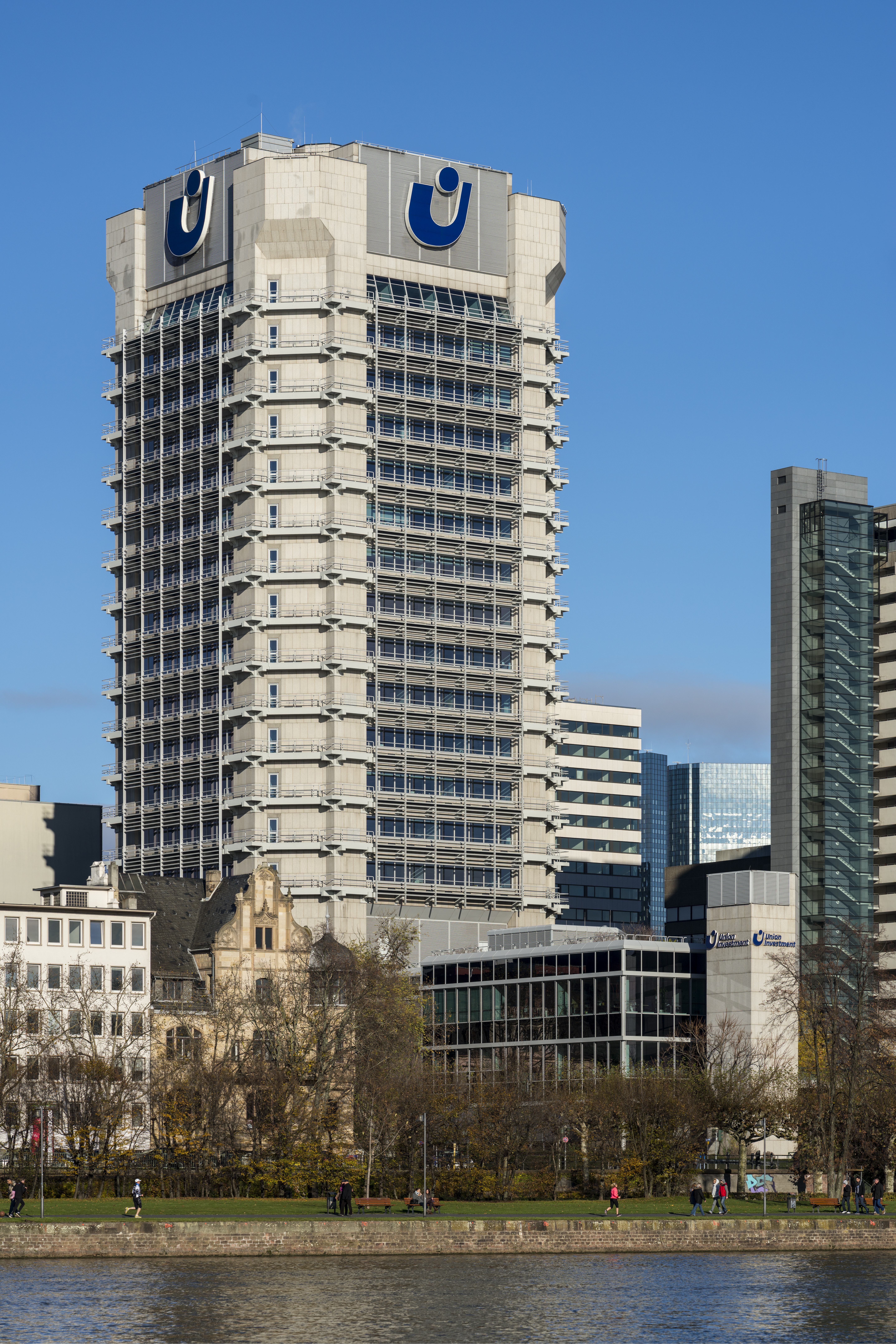 View of the Union Investment-Skyscraper at a sunny winter day. This image is a panorama which was stitched from 4 images. Projection is flat.